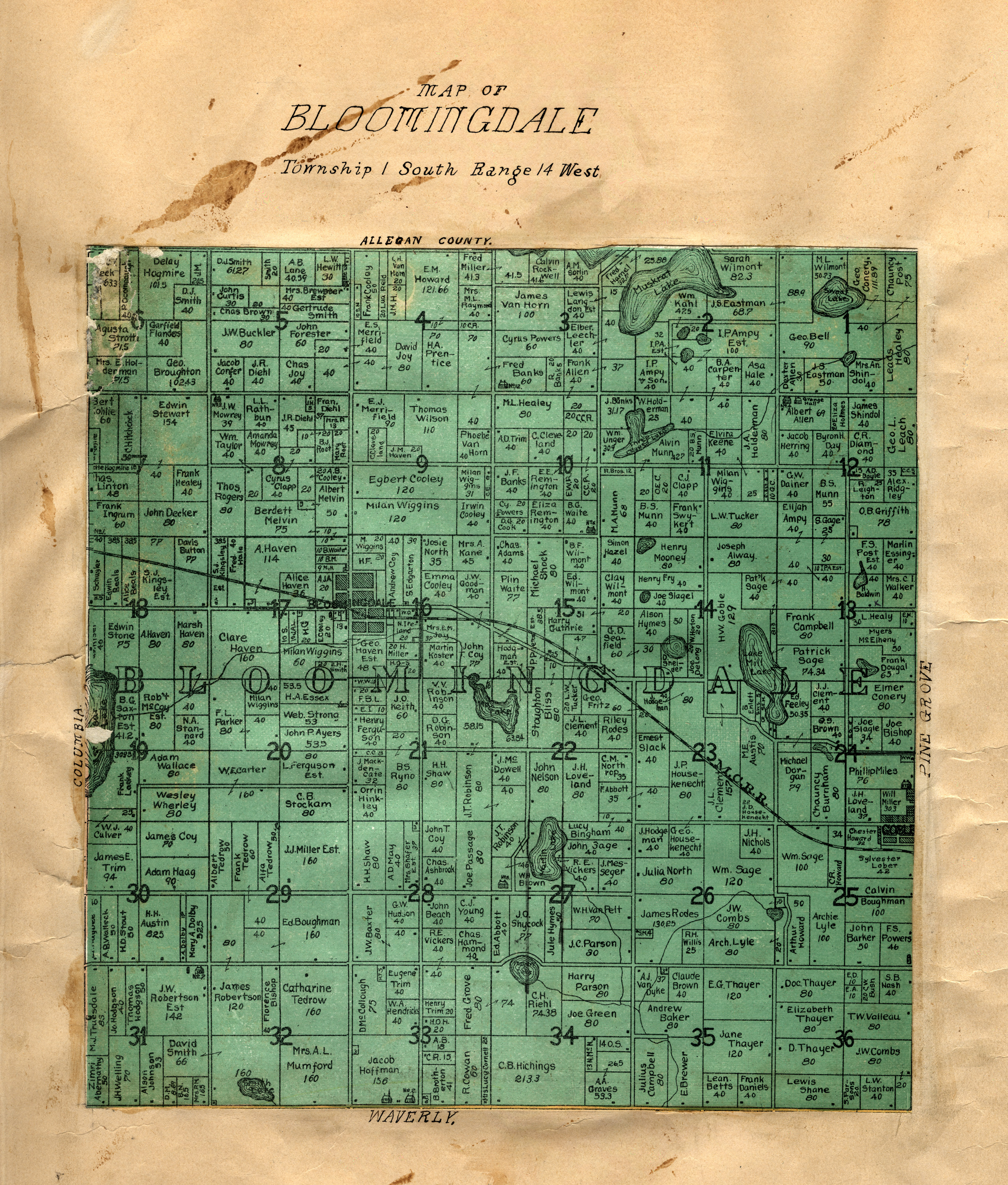 Digital scan of the Bloomingdale Township portion of a larger 1906 map of Van Buren County, Michigan. The county map was cut into township-sized pieces, and the pieces were later found pasted into an 1895 atlas of Van Buren County, now in the collection of the Michigan State University Map Library. Each township map cut from the 1906 county map was pasted onto a blank page opposite the map of the corresponding township in the 1895 county atlas. Shows parcel boundaries and names of property owners, Public Land Survey System township and section numbering, roads, railroads, residences, schools, churches, municipalities, and water features. Print version was cut from map: Orton, M. K. A farm map of Vanburen County, Michigan / compiled from official records and local inspection by W.H. Goss, County Surveyor ; drawn by M.K. Orton. Rockford, Ill. : W.W. Hixson, [1906]. MSU Libraries catalog record